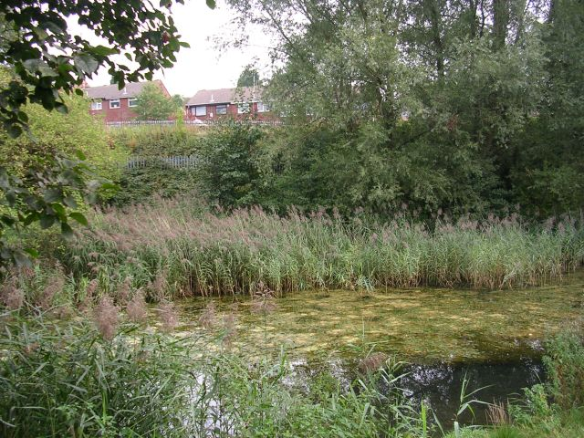 Clayton Vale. Pond in woodland at Clayton Vale, Clayton, Manchester. SJ885995.